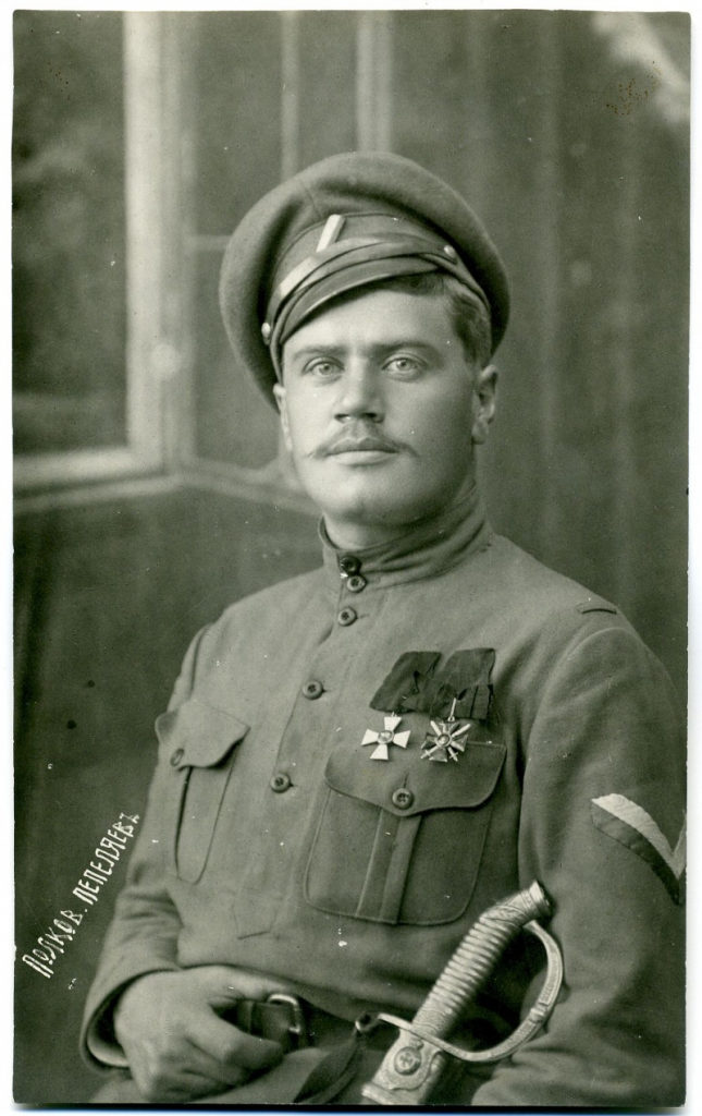 Anatoliy Pepelaev, Russian General of White Army